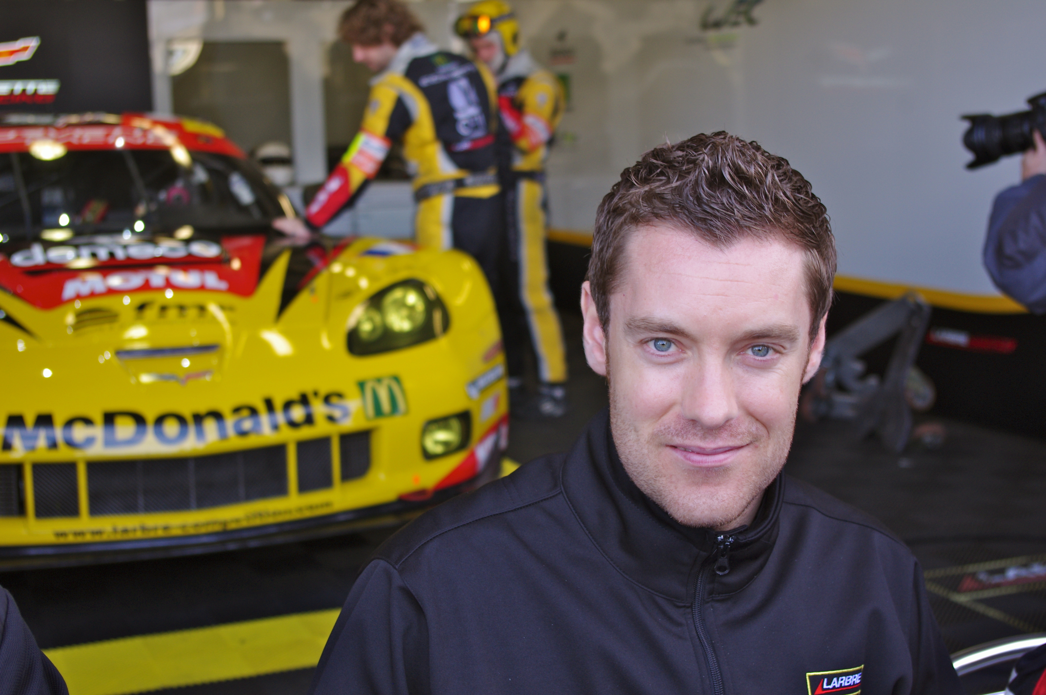 Silverstone 6 Hours 2013 FIA World Endurance Championship (WEC)